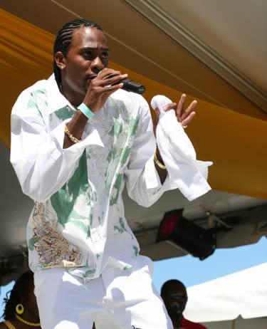 Hypasounds performing at Party Monarch in Barbados